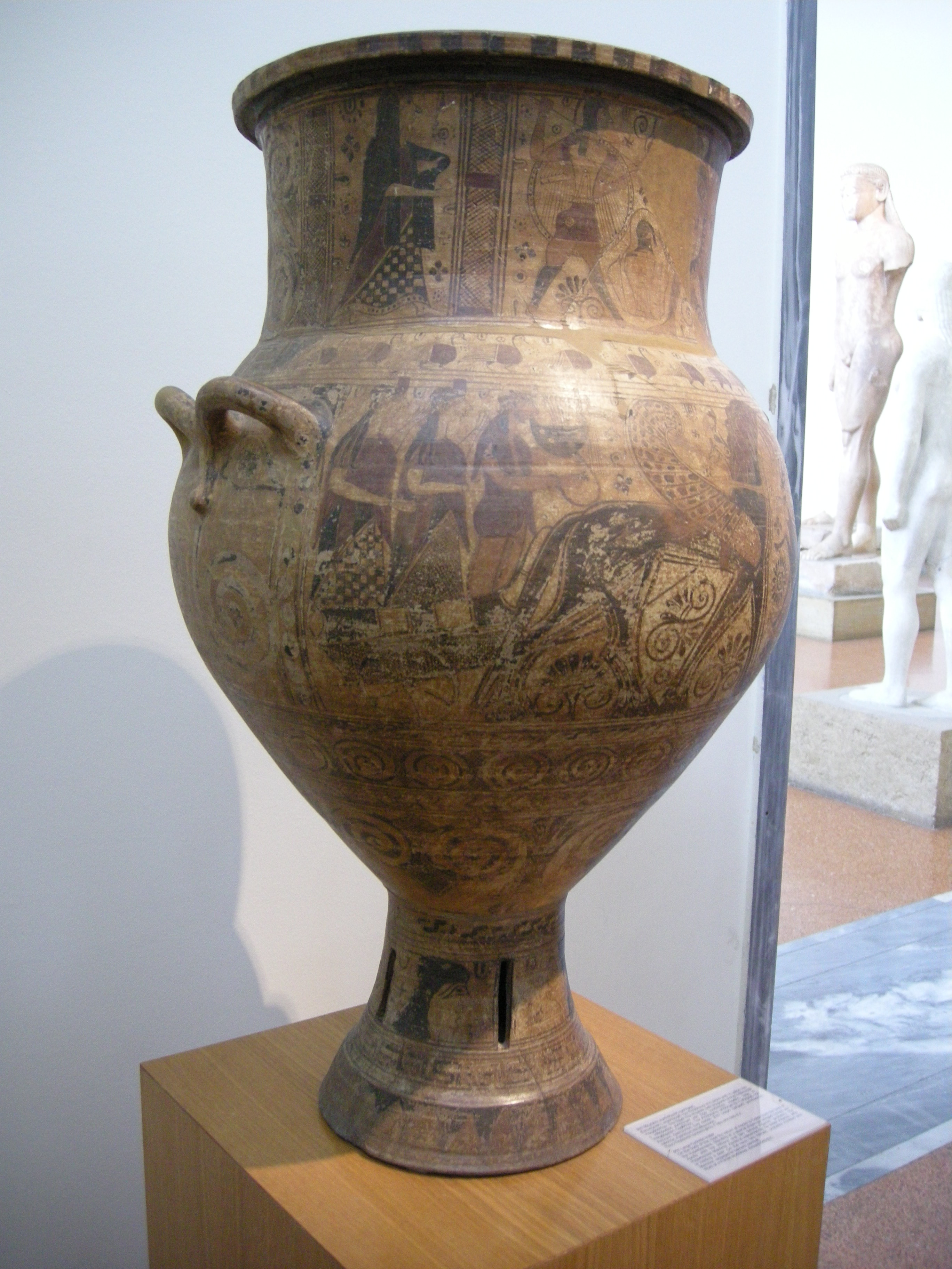 Apollo and Artemis